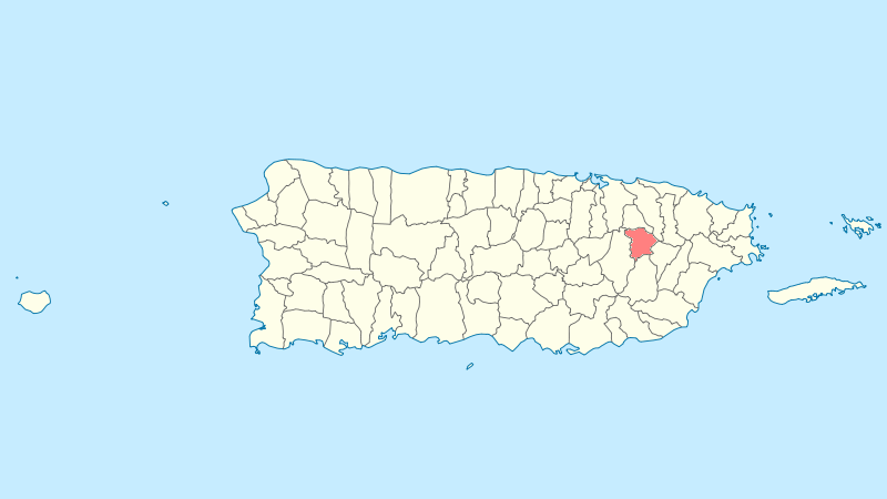 Municipal locator of Puerto Rico